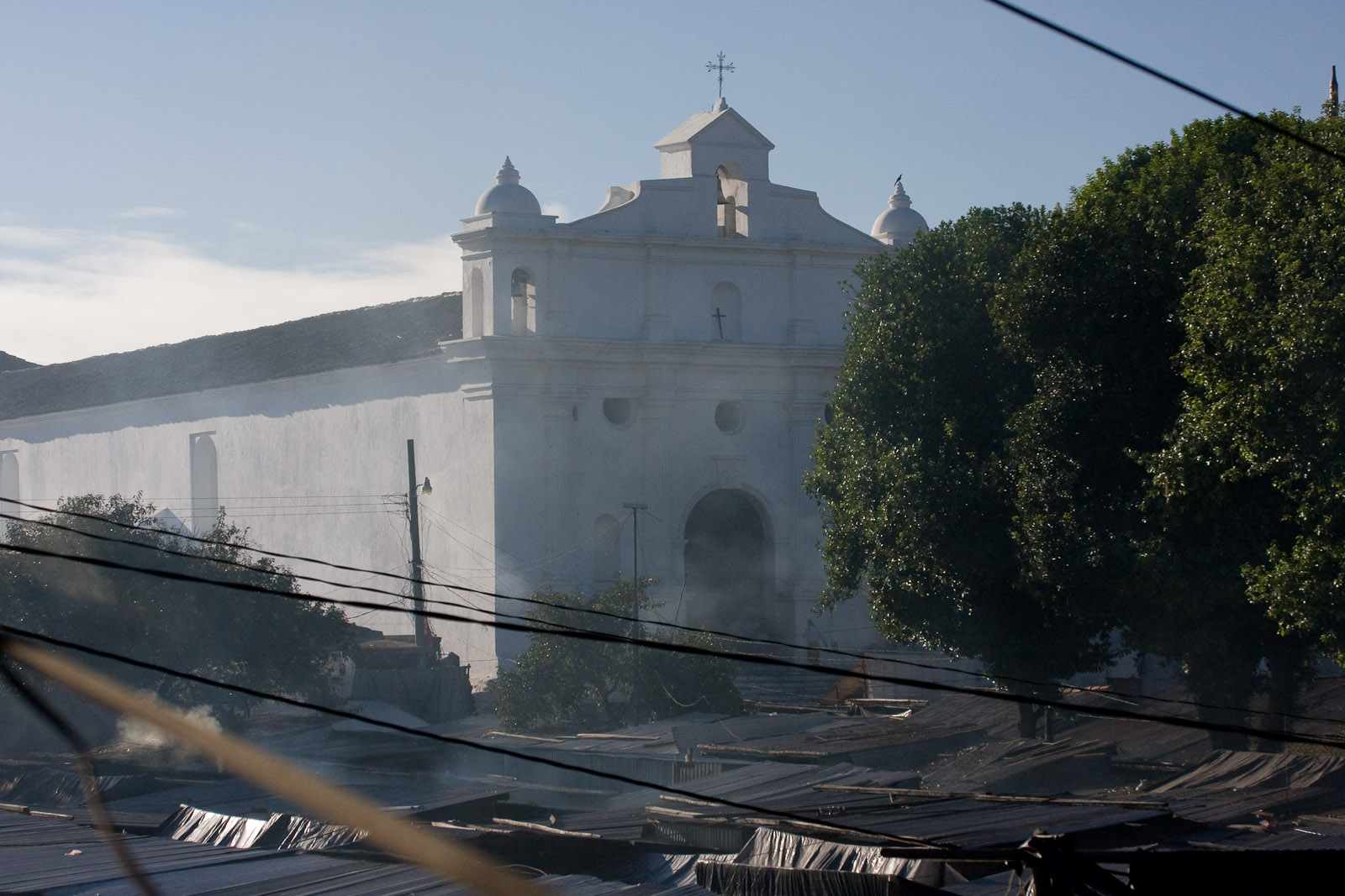 Chichi - Santo Tomas Church